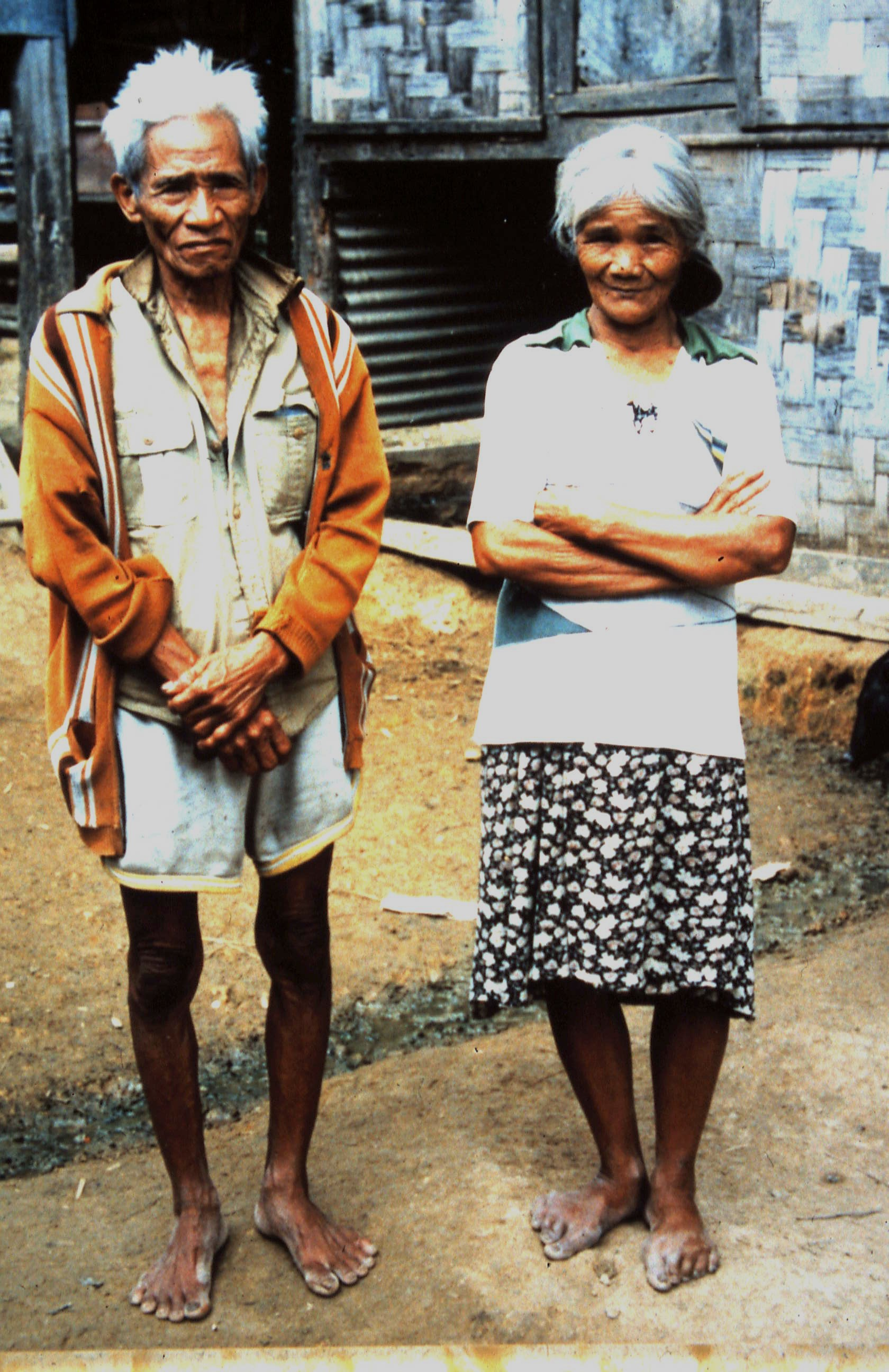 The Kalinga peace pact is a unique institution to create and keep peace between hostile settlements.